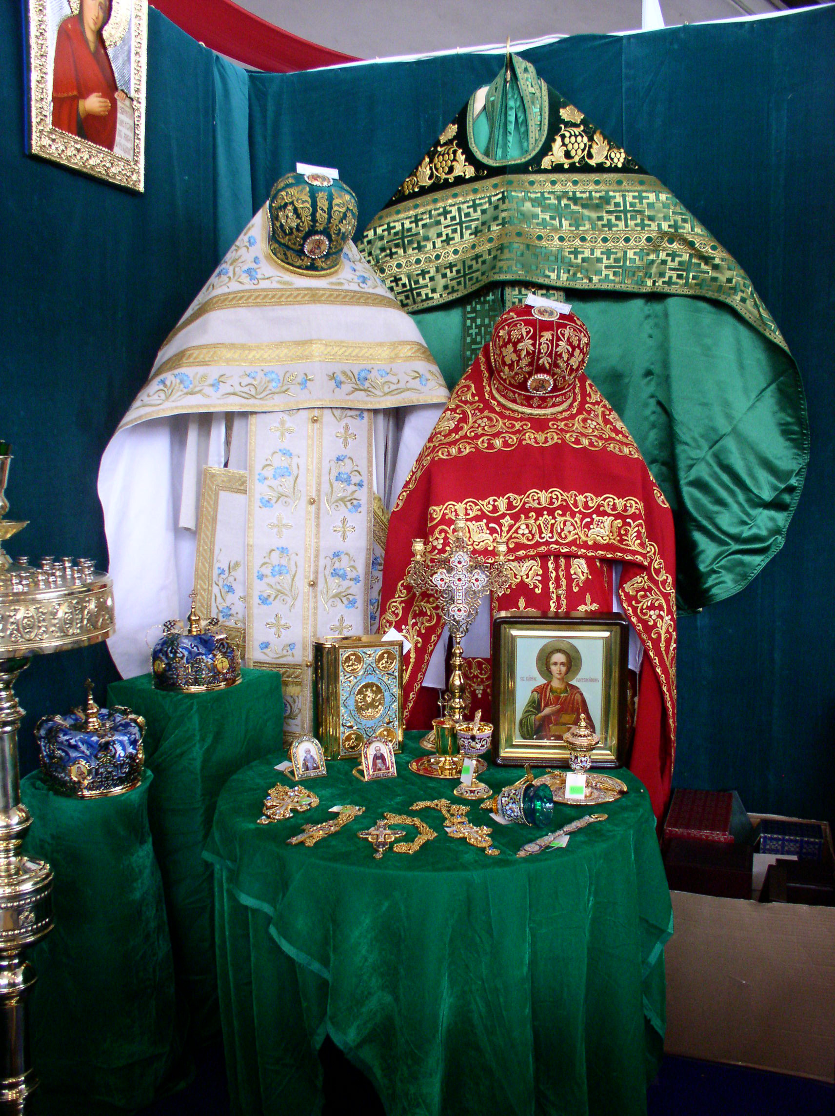 Russian Orthodox Church religious clothing. Russian national exhibition, Minsk, Belarus.